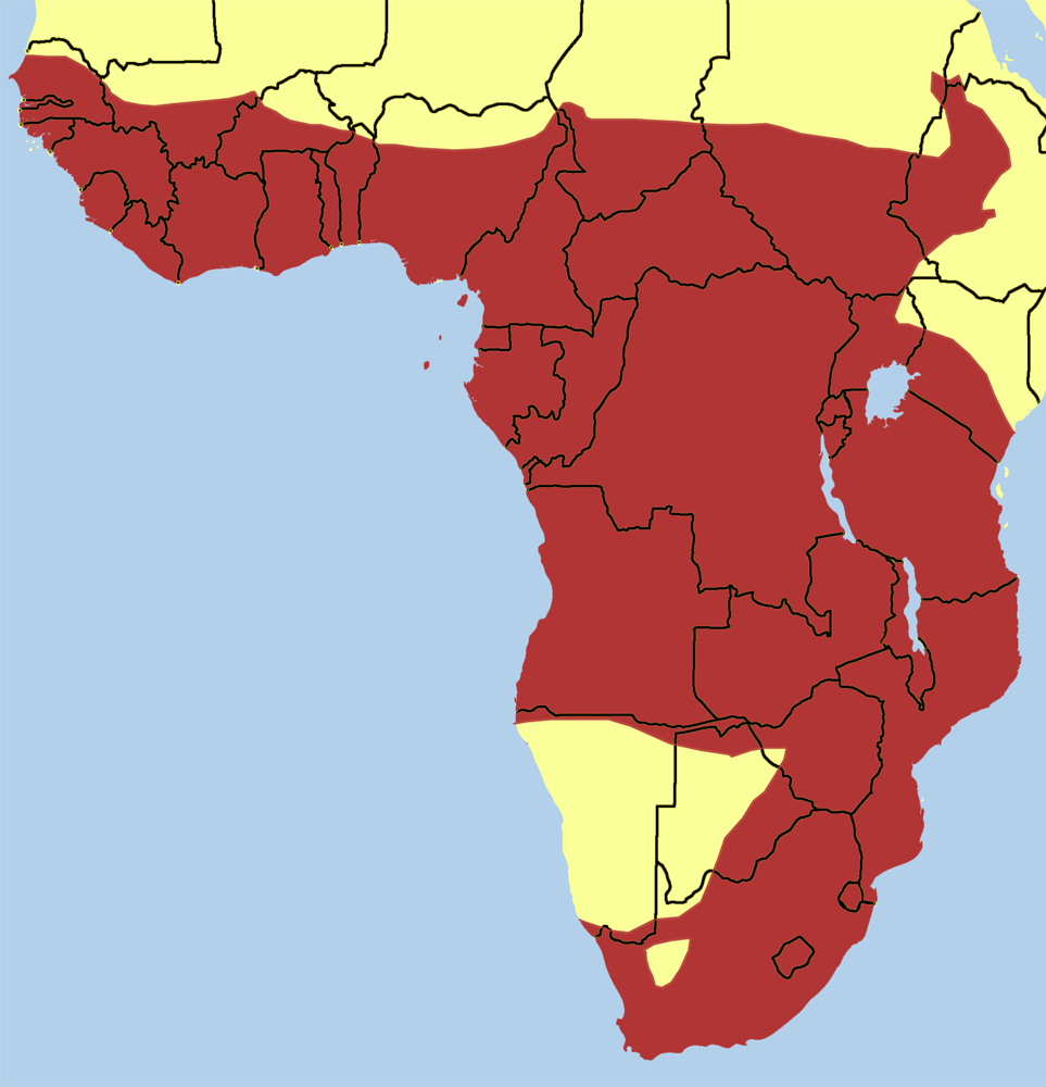 The Distribution of the Giant Kingfisher